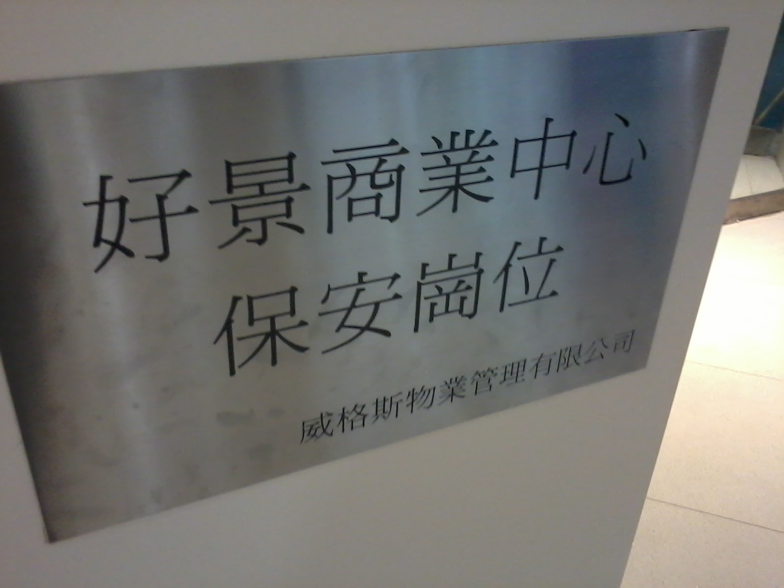 旺角 好景商業中心, Ho King Shopping Centre, Dundas Street, Hong Kong